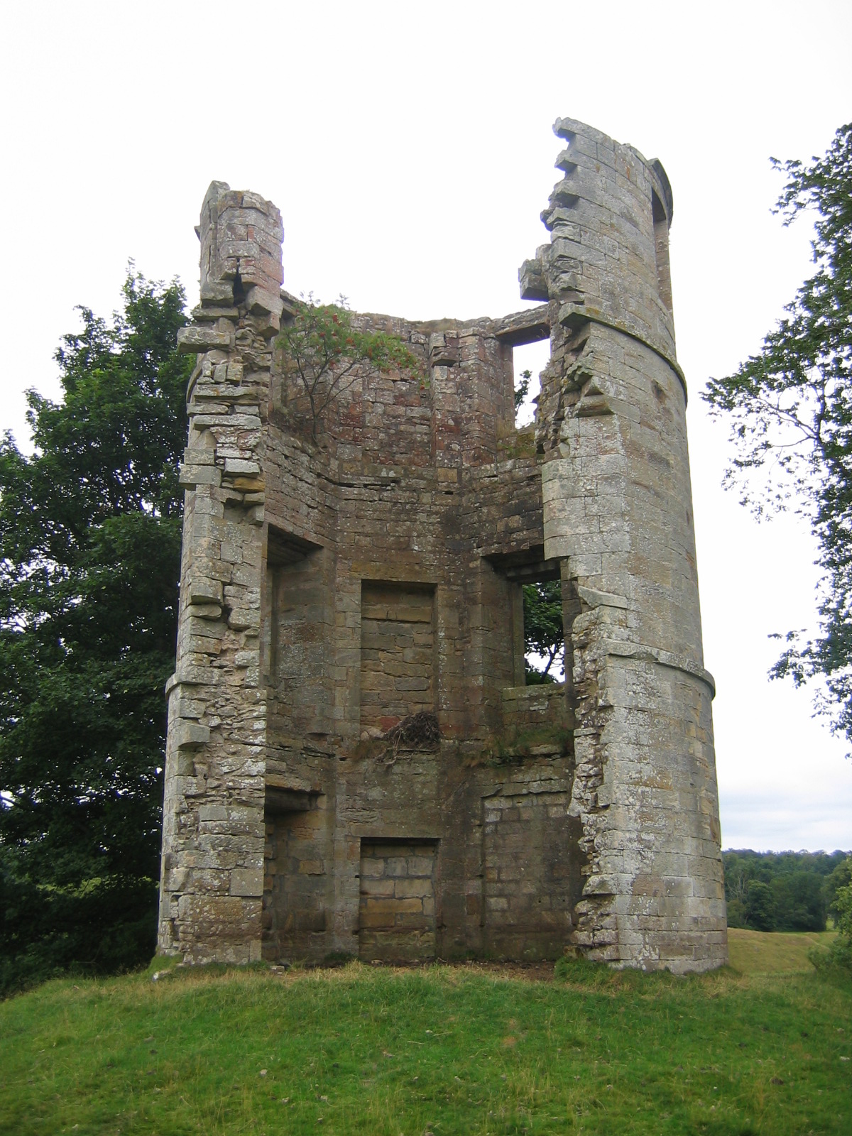 Douglas Castle, South Lanarkshire, Scotland.